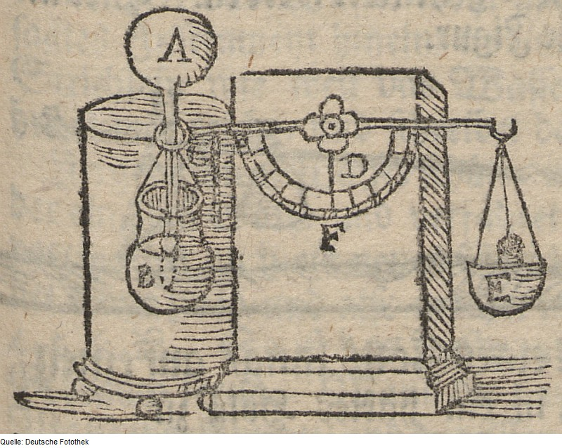 Original image description from the Deutsche Fotothek Naturwissenschaft & Thermometer & Messinstrument & Temperatur & Waage